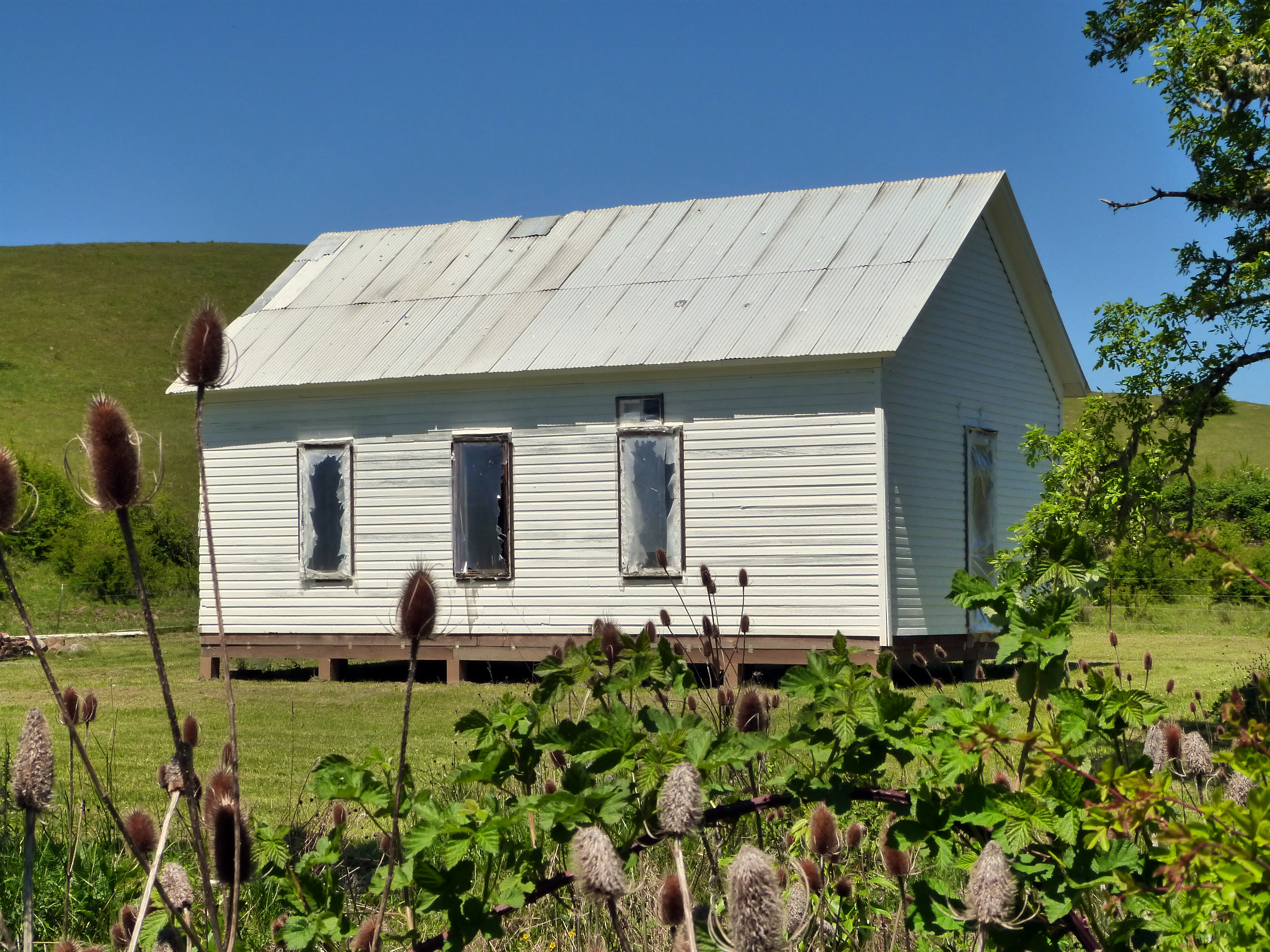 The historic English Settlement School (built ca. 1870), located at 17455 Elkhead Road near Oakland, Oregon, United States, is listed on the US National Register of Historic Places.